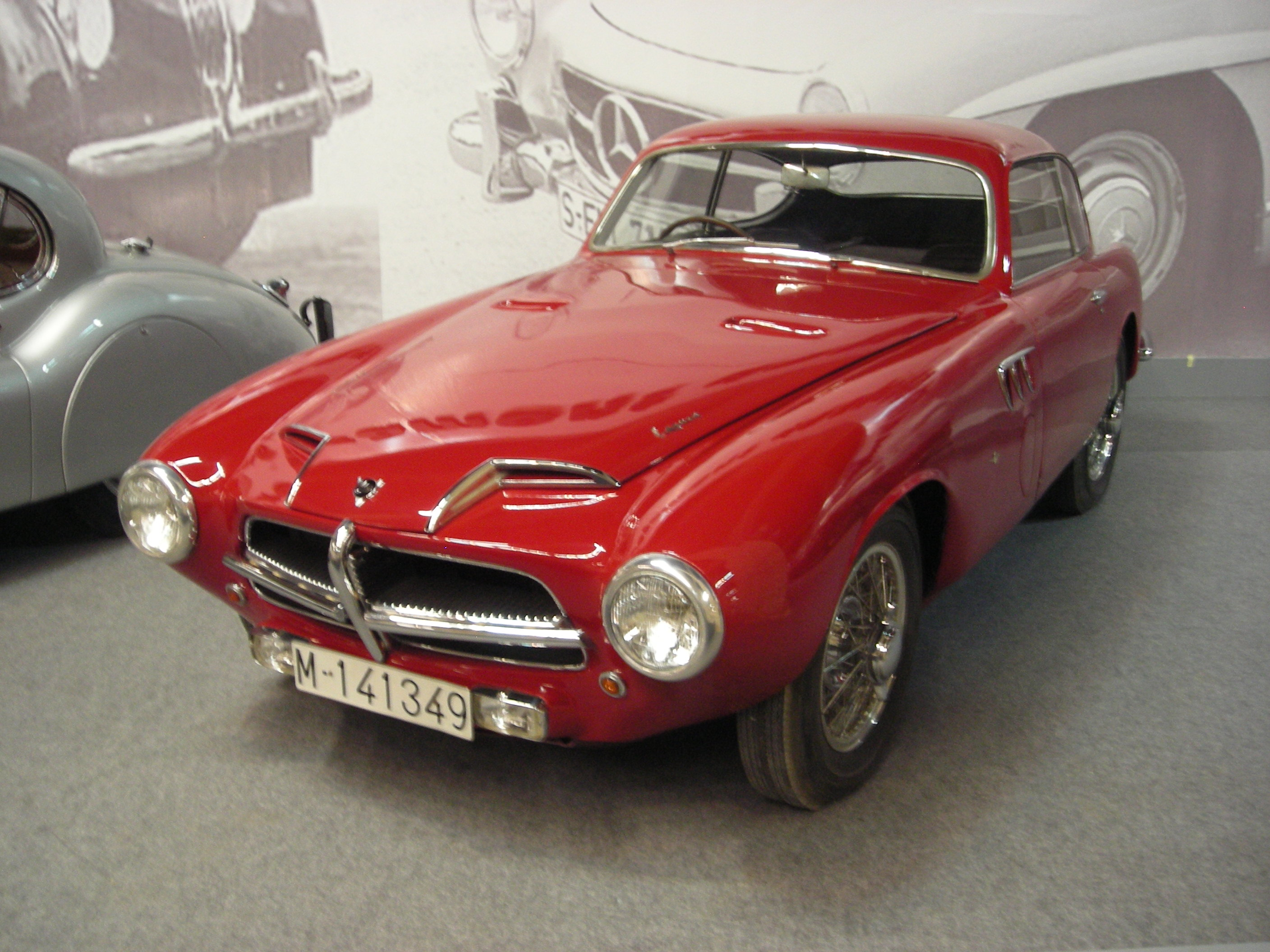 Pegaso Z-102 Berlineta Touring